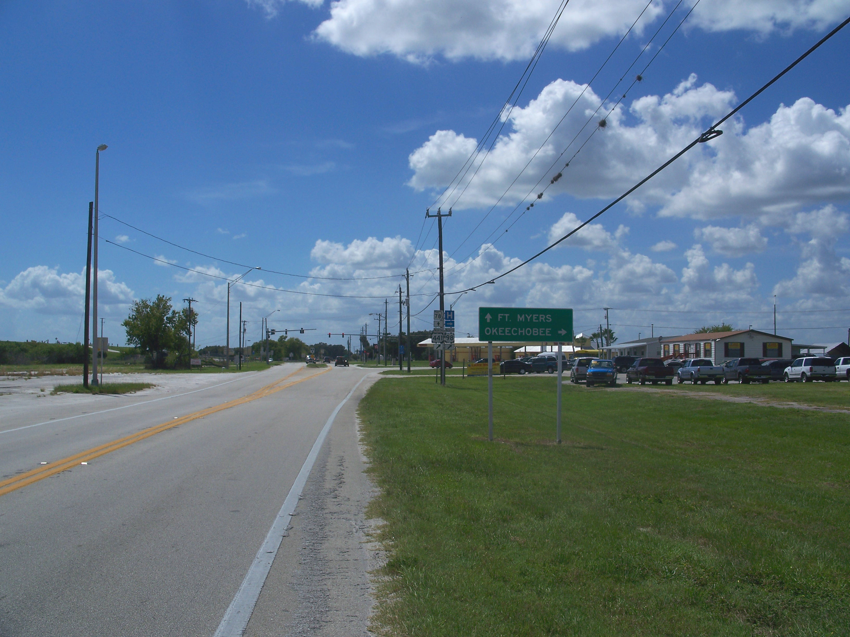 Okeechobee, Florida: US 441/US 98: Looking west towards the split with SR 78, which goes around Lake Okeechobee. US 441/98 goes right (north) into the city of Okeechobee, and SR 78 goes straight (west)